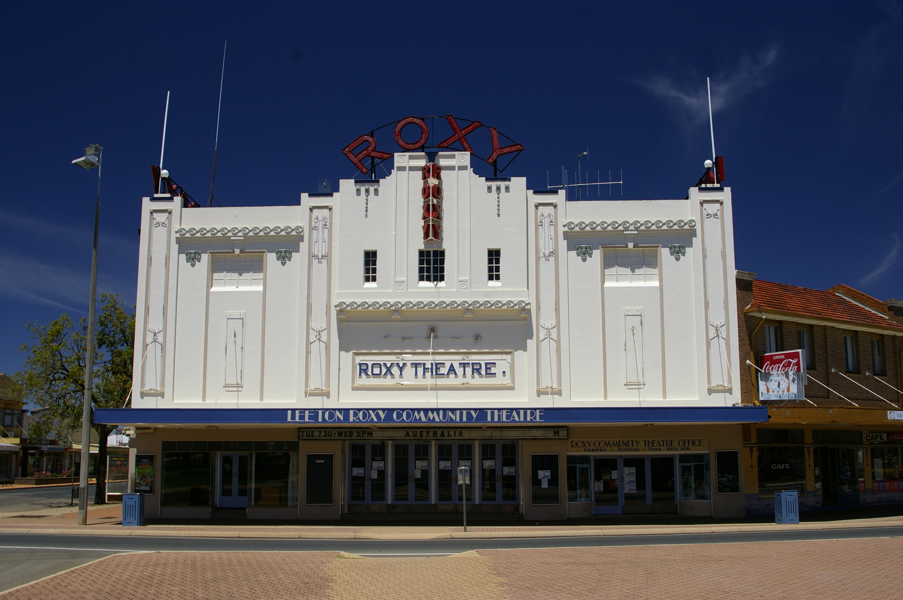 Original photograph of the Leeton Roxy Community Theatre.